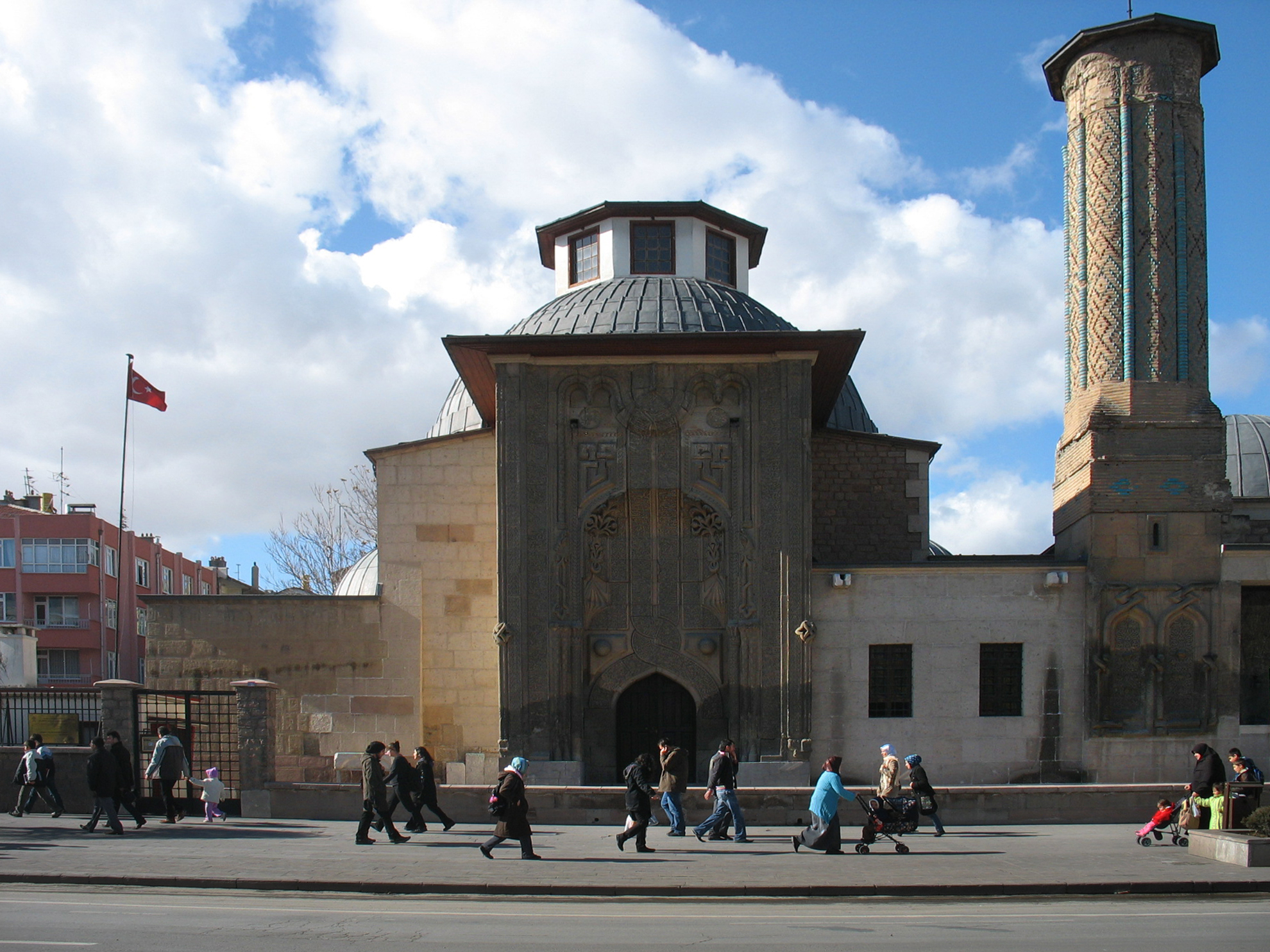 Museum of Stone and Wood Works of the Seljuk Era (Selçuklu Devri Taş ve Ahşap Eserler Müzesi or Ince Minare Museum), Konya, Turkey. Formerly a religious school known as the Ince Minare Madrasah (İnce Minare Medresesi).